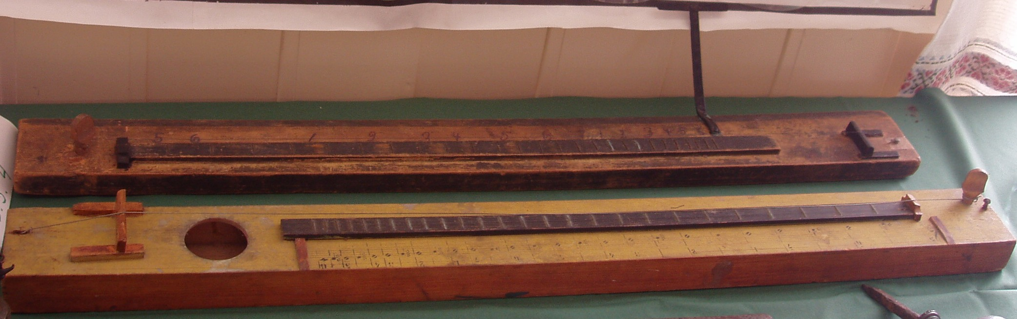 Two psalmodicons in the lokal museum in Tjøtta, Alstahaug in Norway